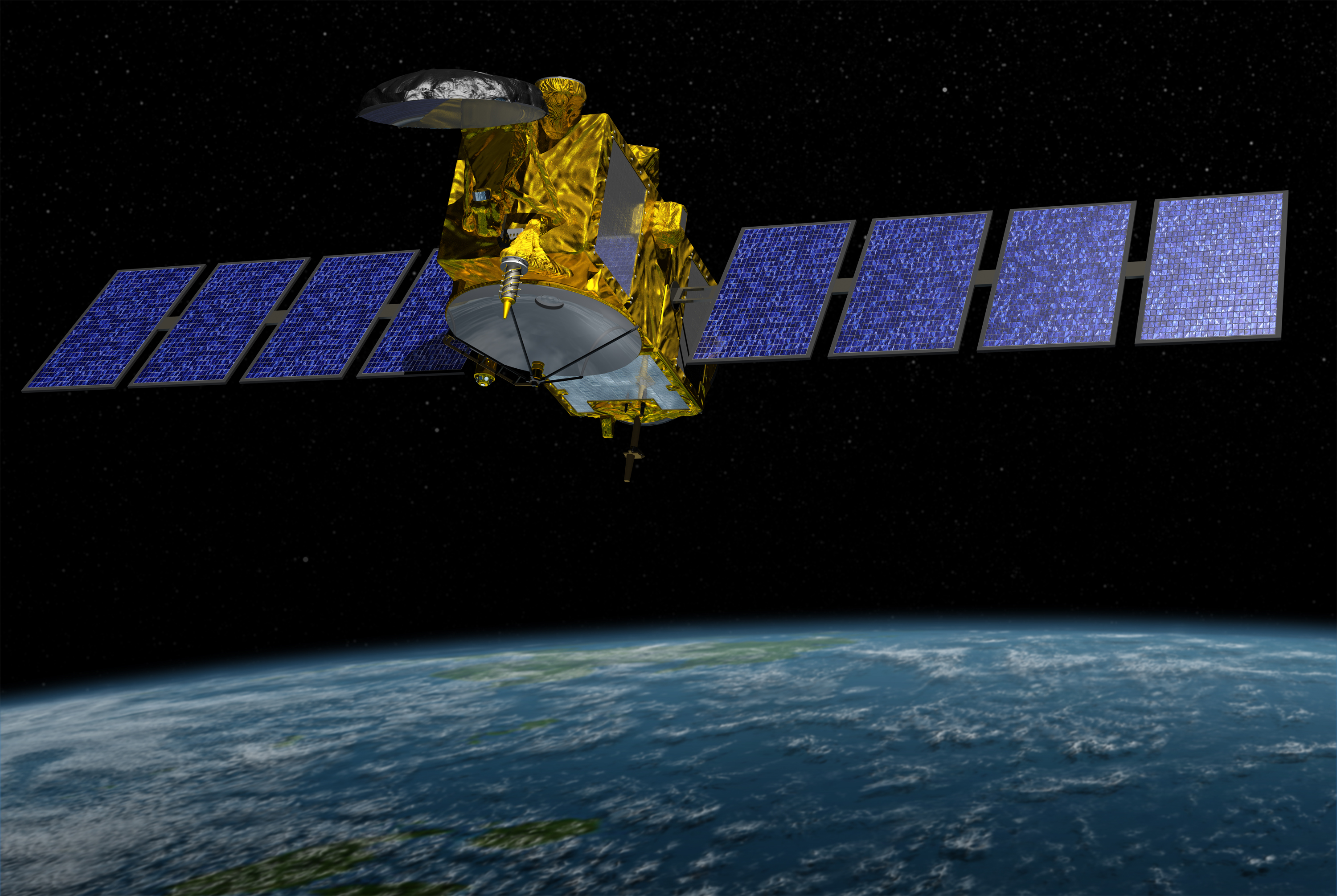 Artist's rendering of Jason-3.